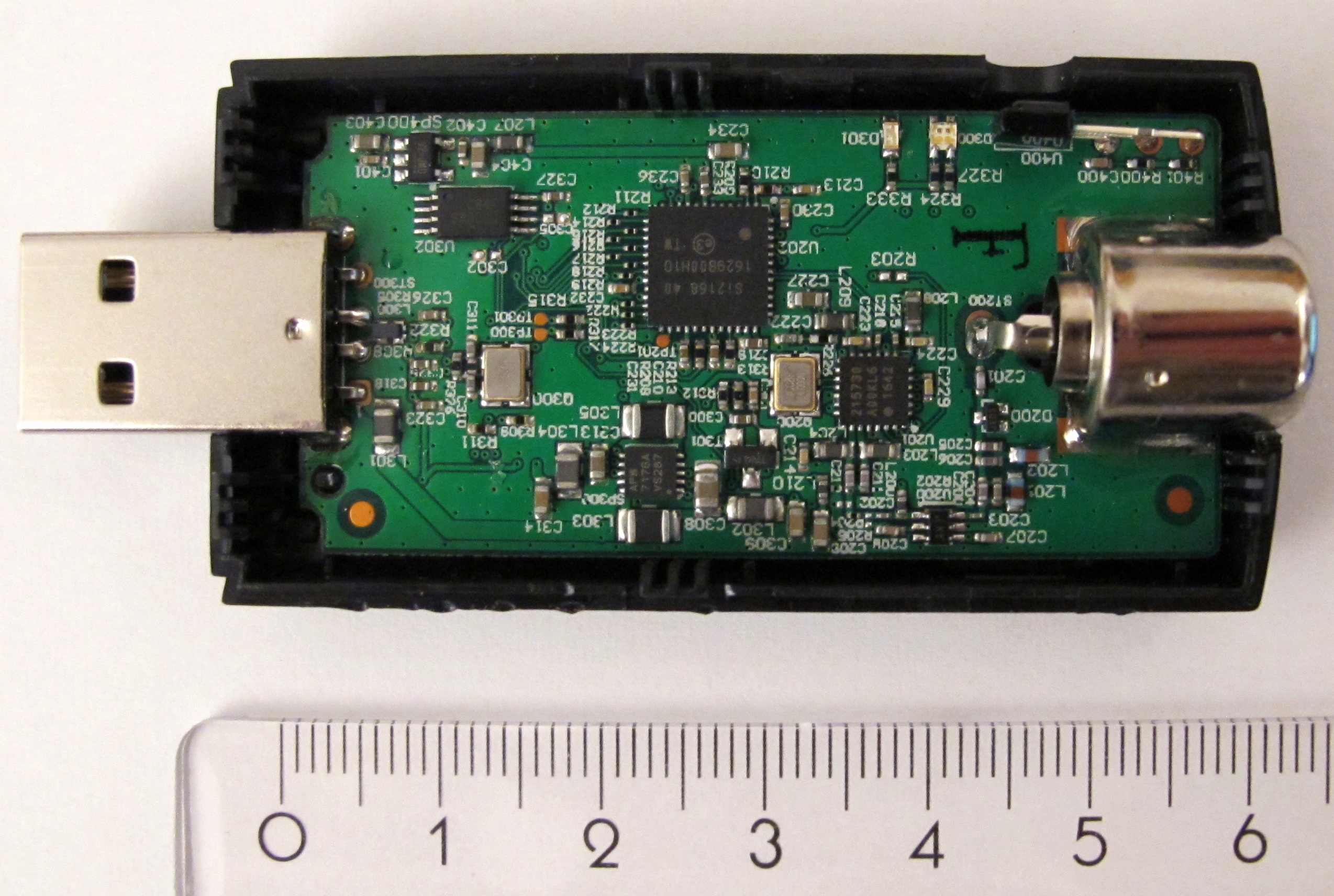 Open USB TV tuner card type WinTV-soloHD from Hauppauge. Capable of receiving terrestrial and cable TV programs in DVB-T, DVB-T2 and DVB-C in SD or HD, encoded in H.264 and H.265